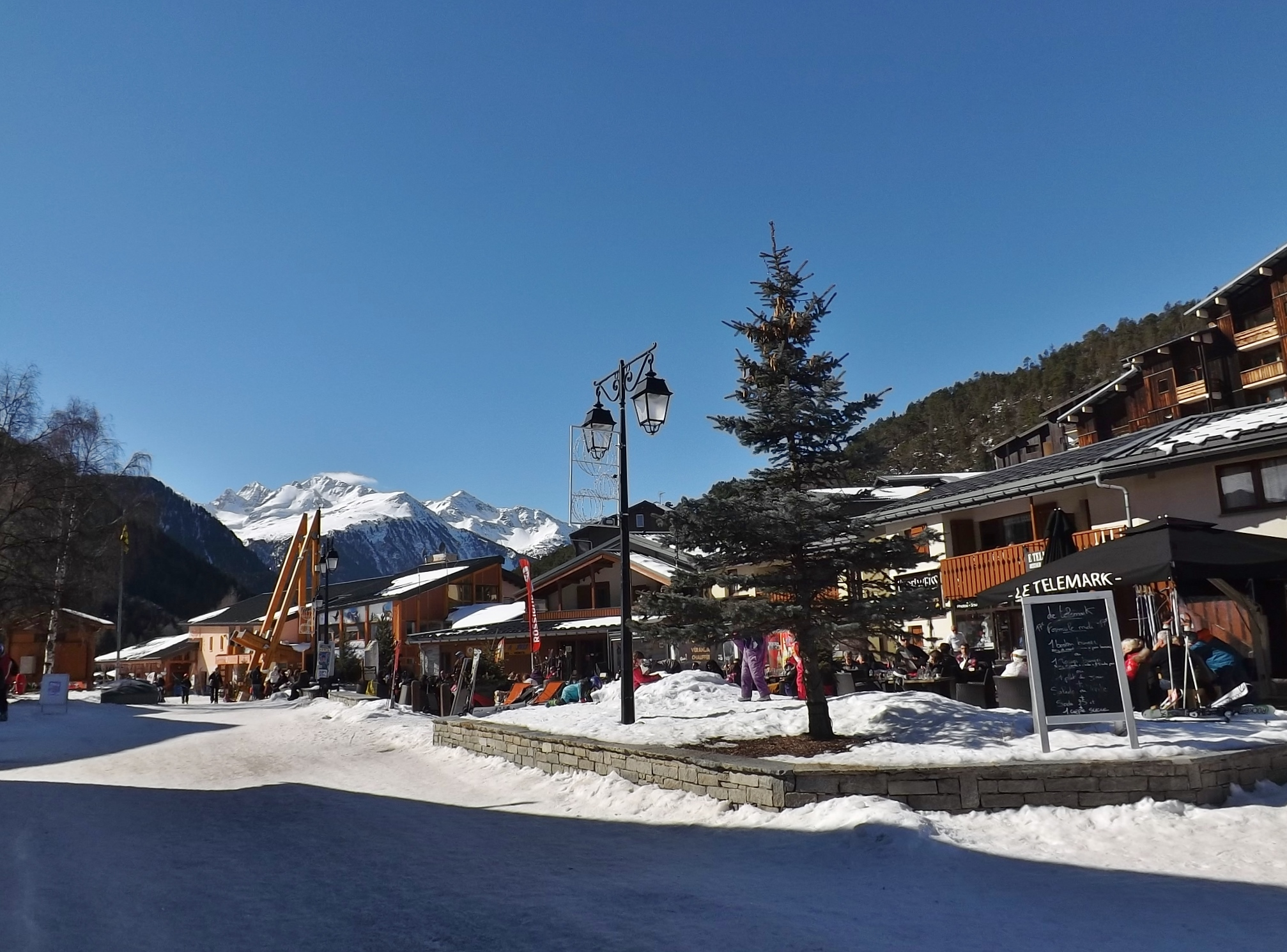 Sight of La Norma ski resort village, in Savoie, France.